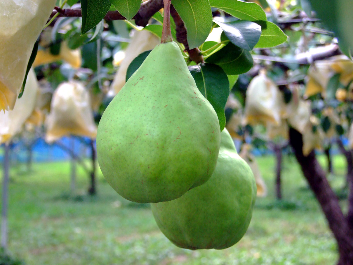 The European Pear to which named Le Lectier. The epidermal color is still green in this photograph.